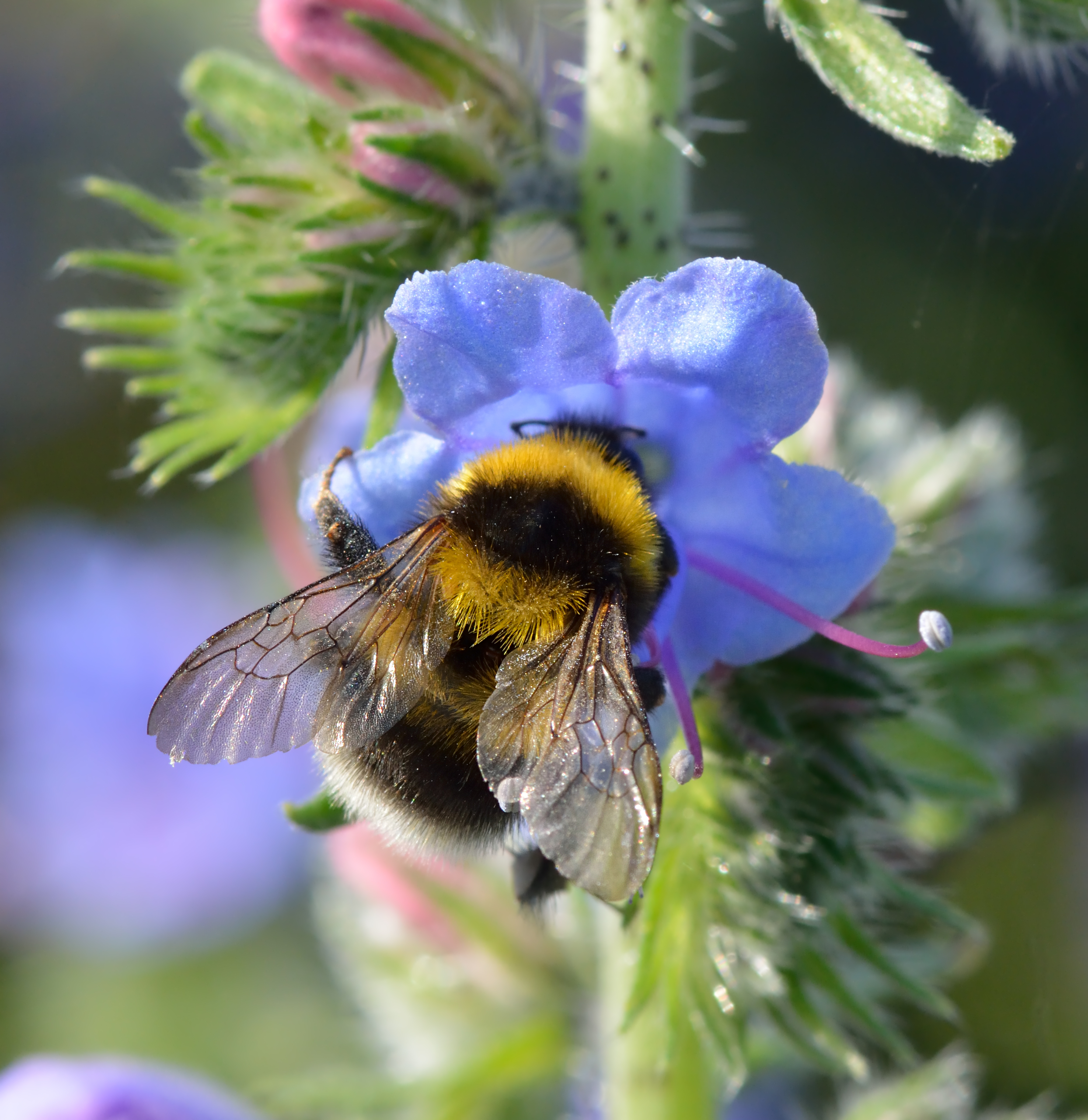 Garden bumblebee (Bombus hortorum) queen on the blueweed (Echium vulgare). Keila, Northwestern Estonia.